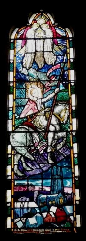 Reginald Hallward window in Westmeston Sussex (St Martin's Church)